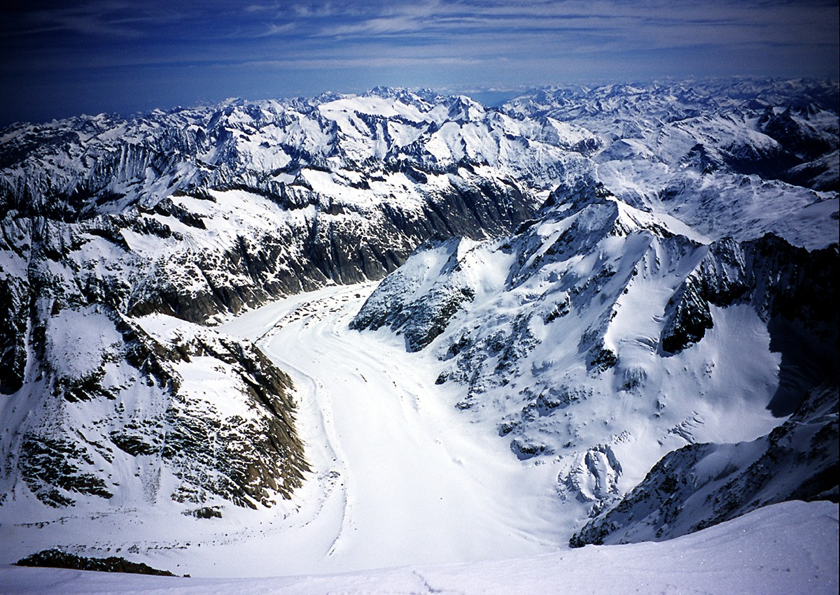 Finsteraarhorn glacier from summit of Finsteraarhorn, Bernese Alps